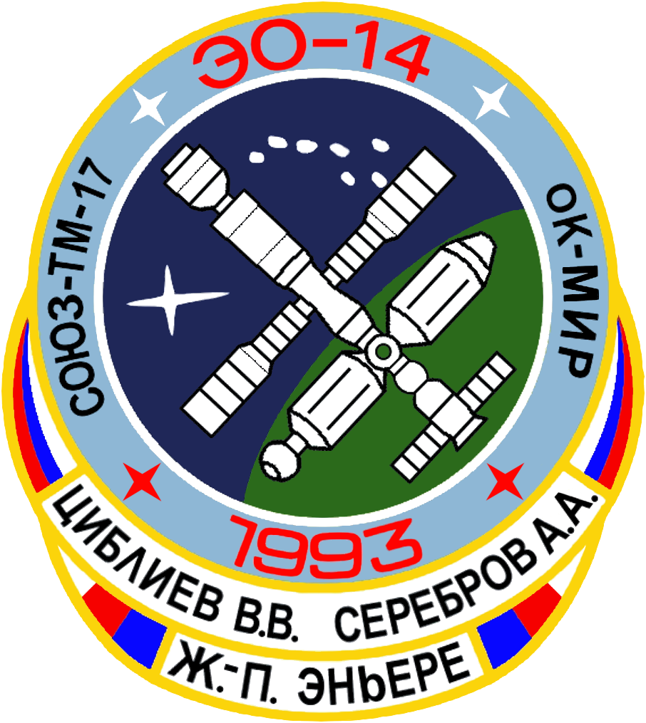 The official crew patch for the Russian Soyuz TM-17 mission, which delivered the EO-14 crew to the space station Mir.